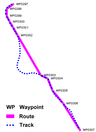 Waypoints, Routes and Tracks recorded by GPS receivers.